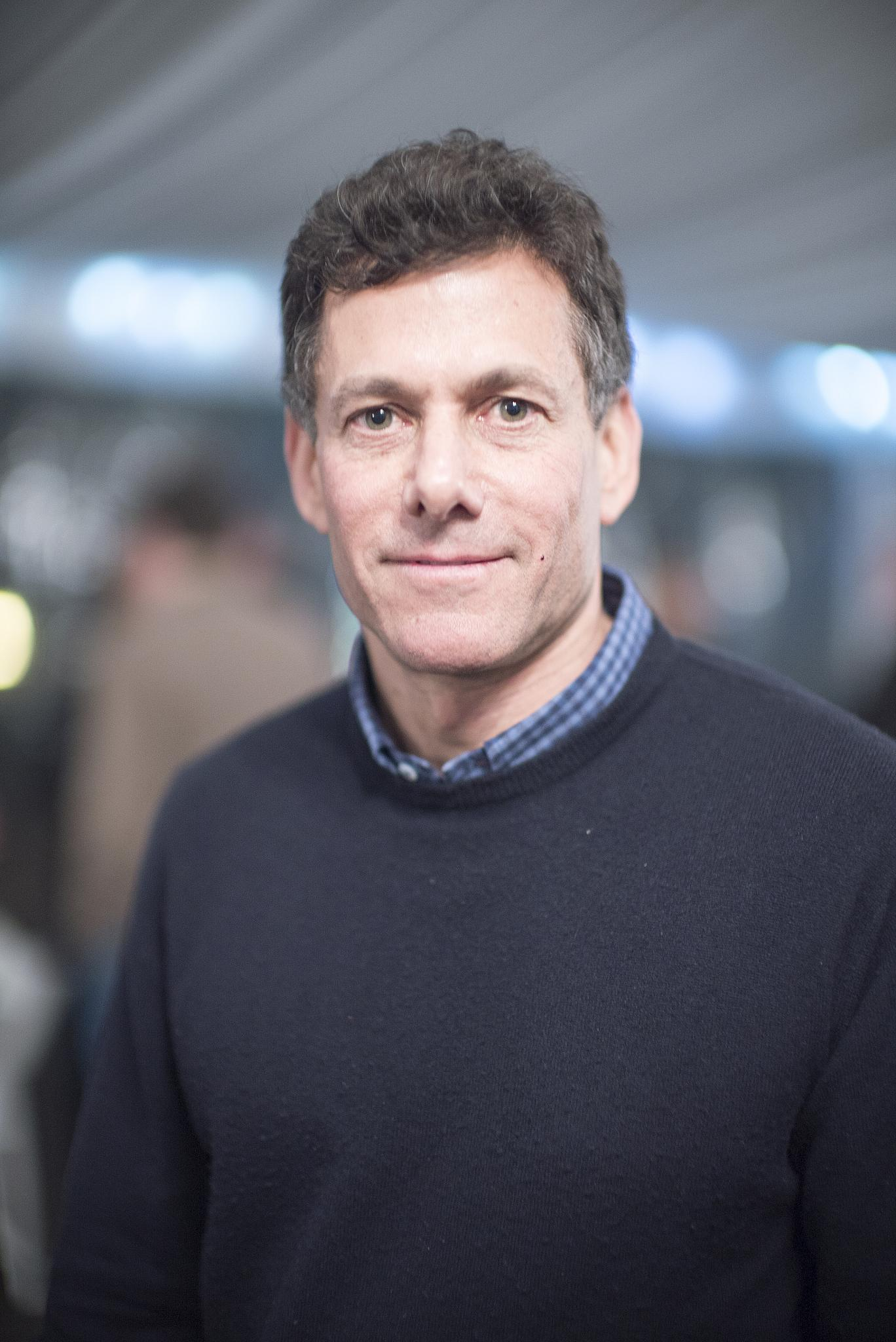 Photo of American executive Strauss Zelnick, taken in March 2015